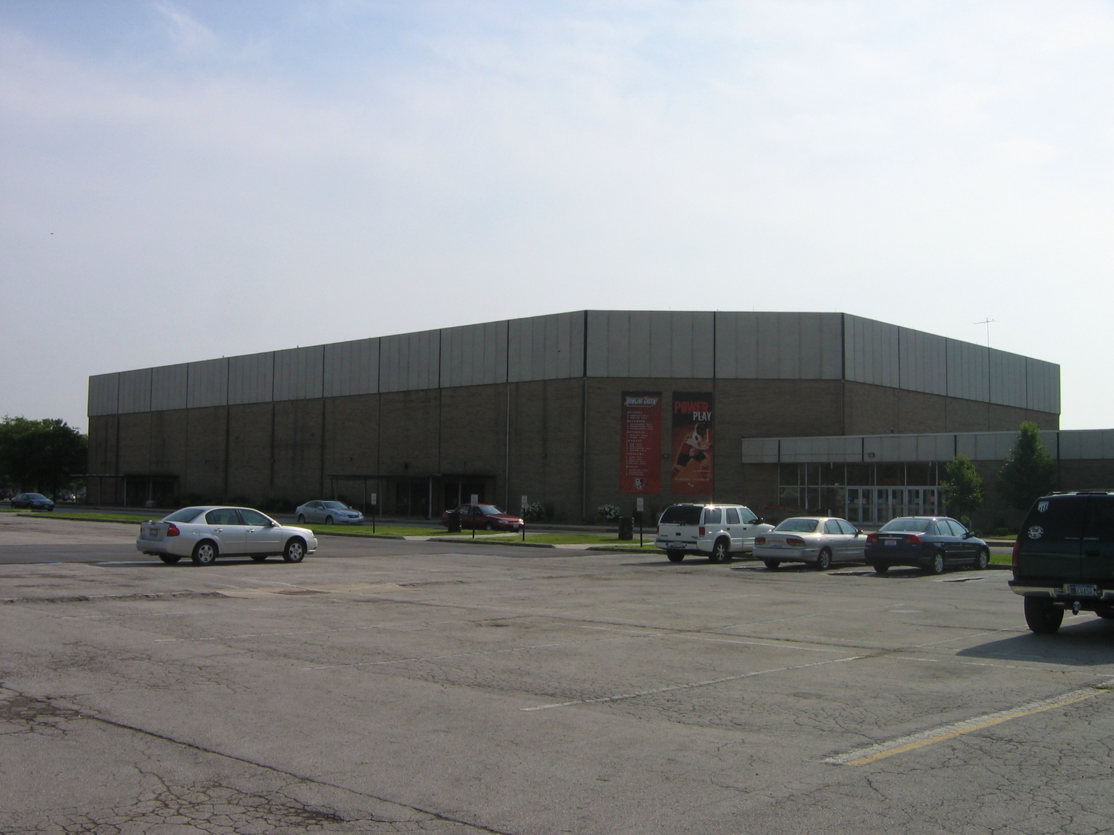 Football & Basketball Facilities Bowling Green Hockey Rink